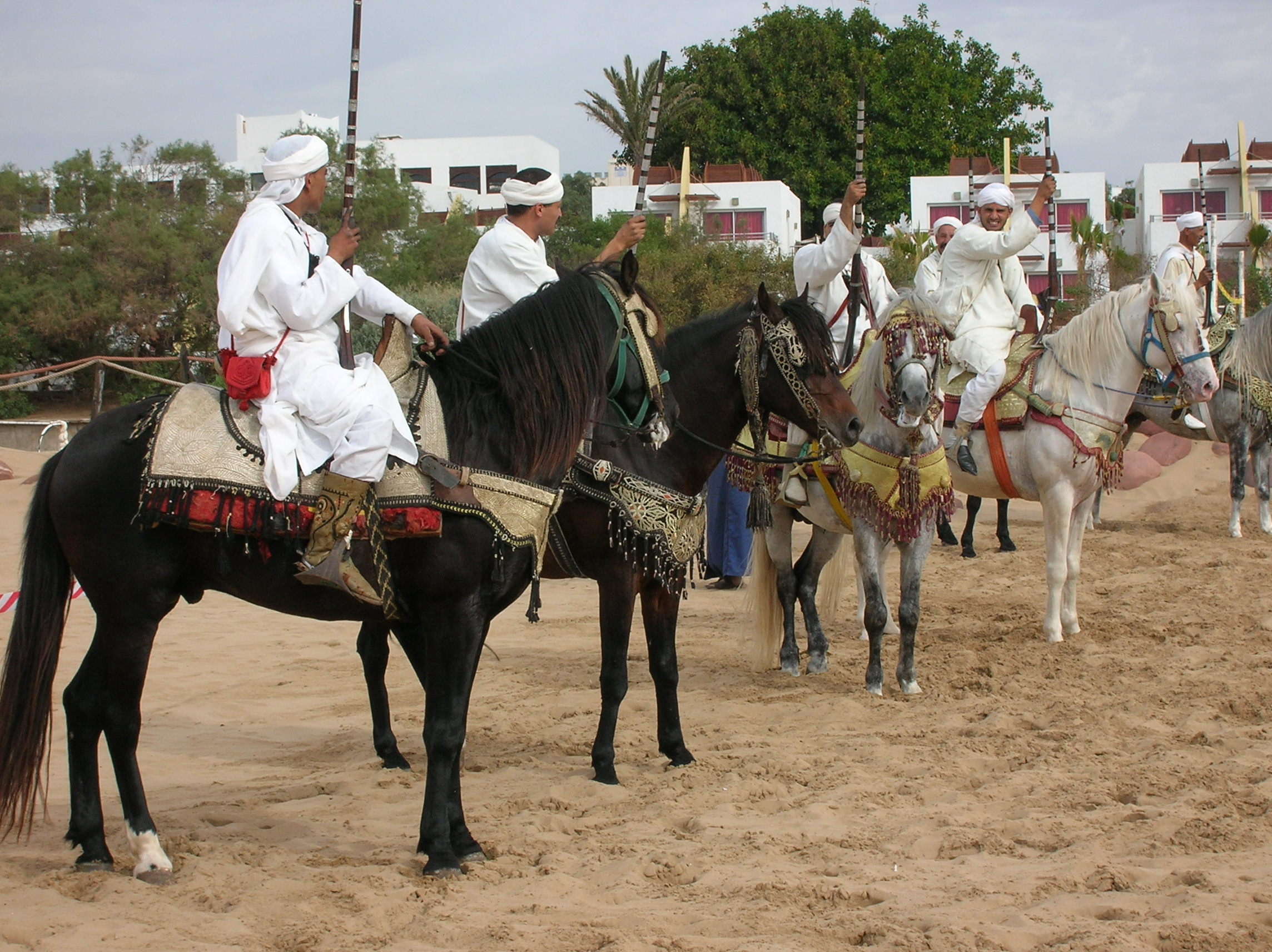 A berber show on the beach in Agadir, Morocco.